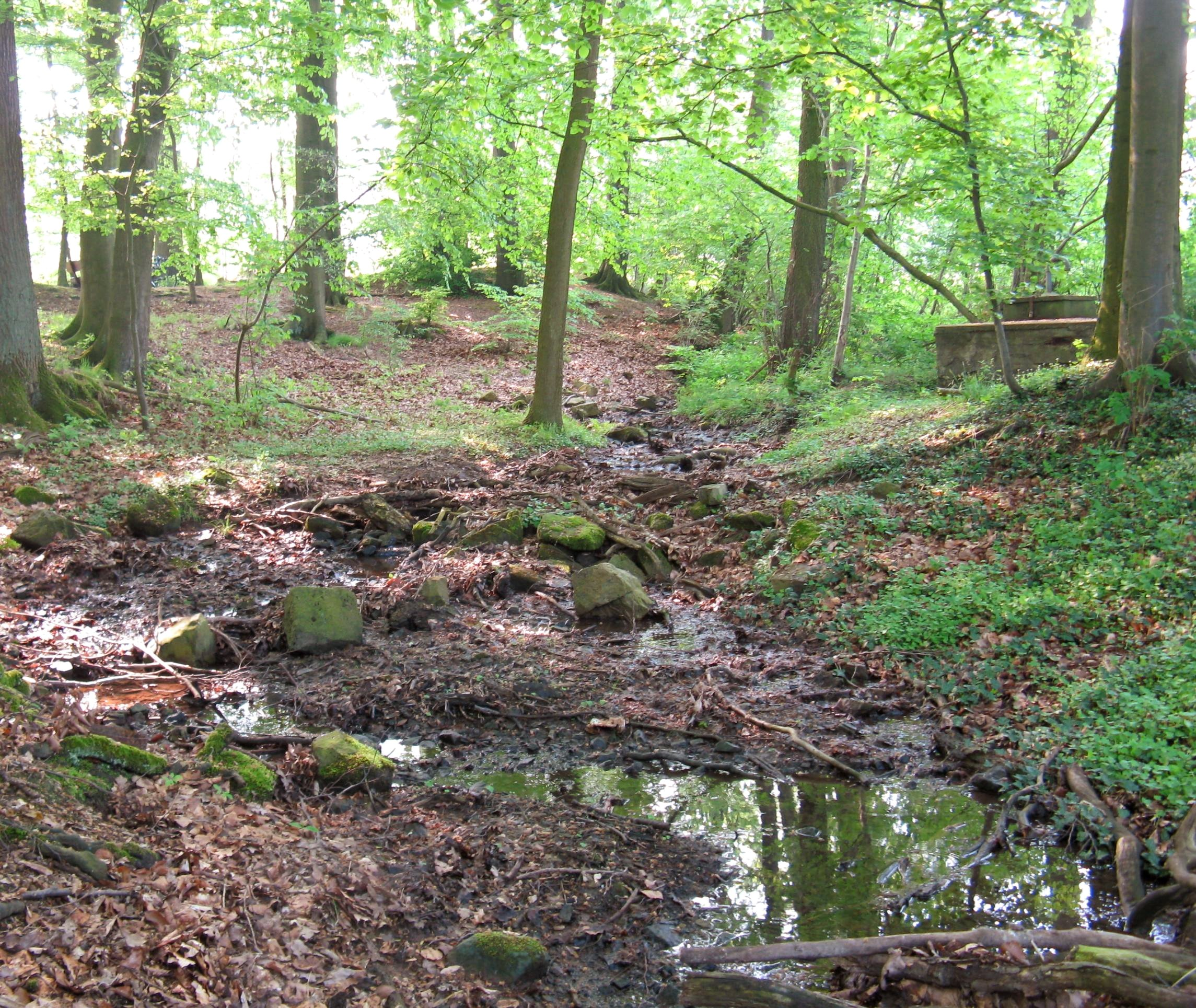 Origin of River Werre in Horn Bad Meinberg-Wehren